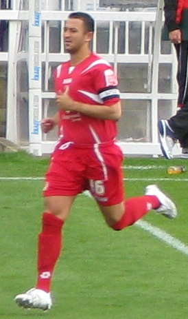 Hasney Aljofree, an English footballer.